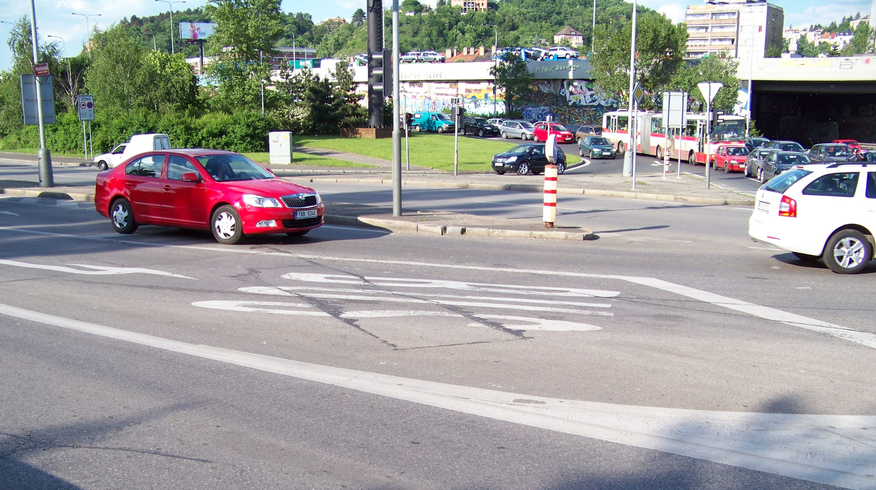 Braník, Prague, the Czech Republic. Modřanská street, inductive traffic detector in a bus lane.